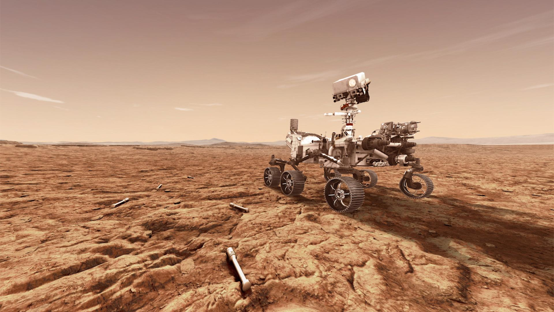 PIA23492: Mars 2020 With Sample Tubes (Artist's Concept) NASA's Mars 2020 rover will store rock and soil samples in sealed tubes on the planet's surface for future missions to retrieve, as seen in this illustration. The Mars 2020 rover, scheduled to launch in July 2020, represents the first leg of humanity's first planned round trip to another planet. NASA and the European Space Agency are solidifying concepts for a Mars sample return mission. NASA's Jet Propulsion Laboratory in Pasadena, California, is building and will manage operations of the Mars 2020 rover for NASA's Science Mission Directorate at the agency's headquarters in Washington. For more information about the mission, go to